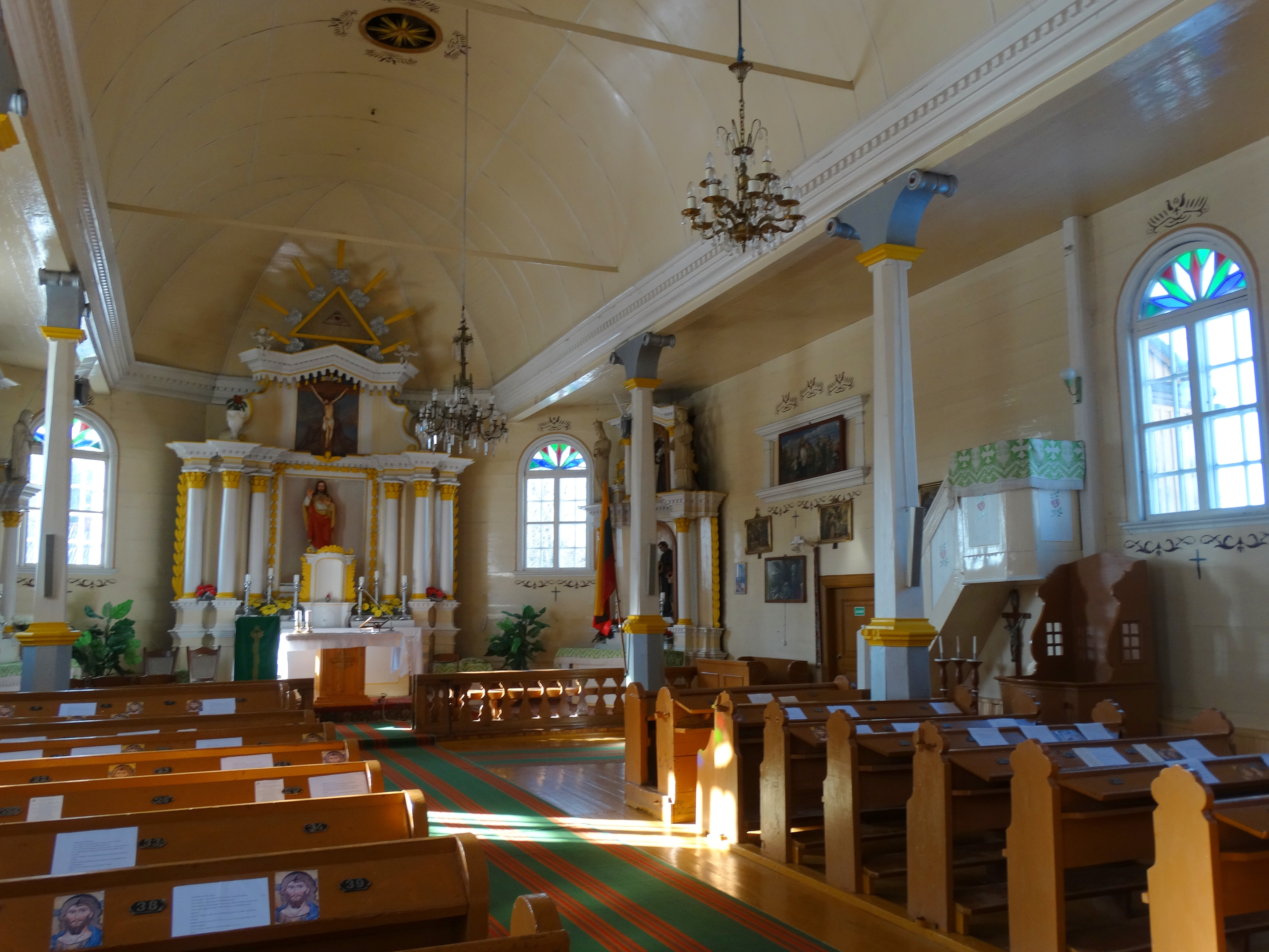 Catholic Church, interior, Tūbinės I, Šilalė district, Lithuania